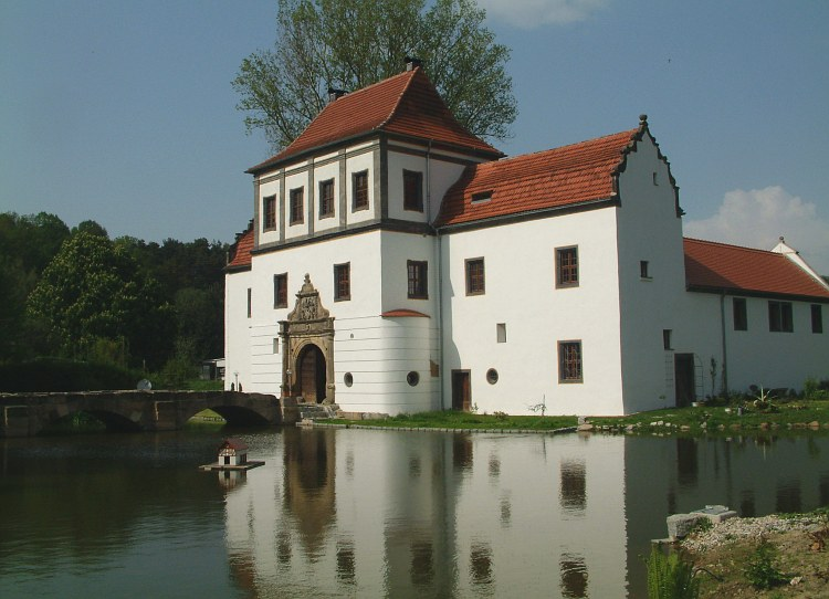 Castle Hainewalde, Upper Lusatia, Saxony, Germany, Old Europe